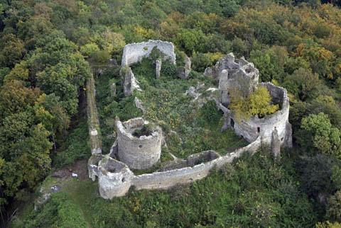 Jasenov Castle, Slovakia, aerial photography